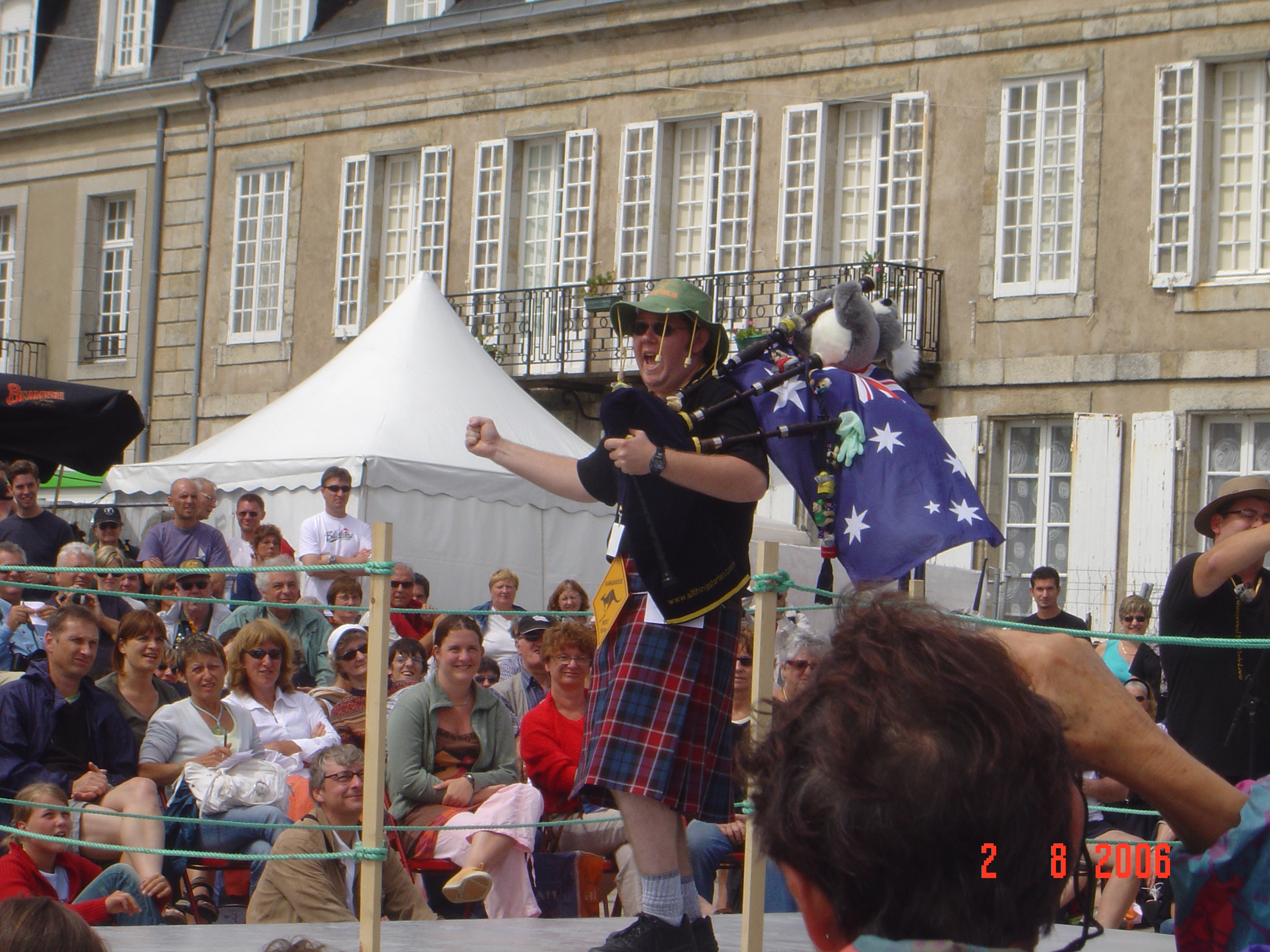 Piper during a kitchen music contest, Interceltic Festival of Lorient, France.